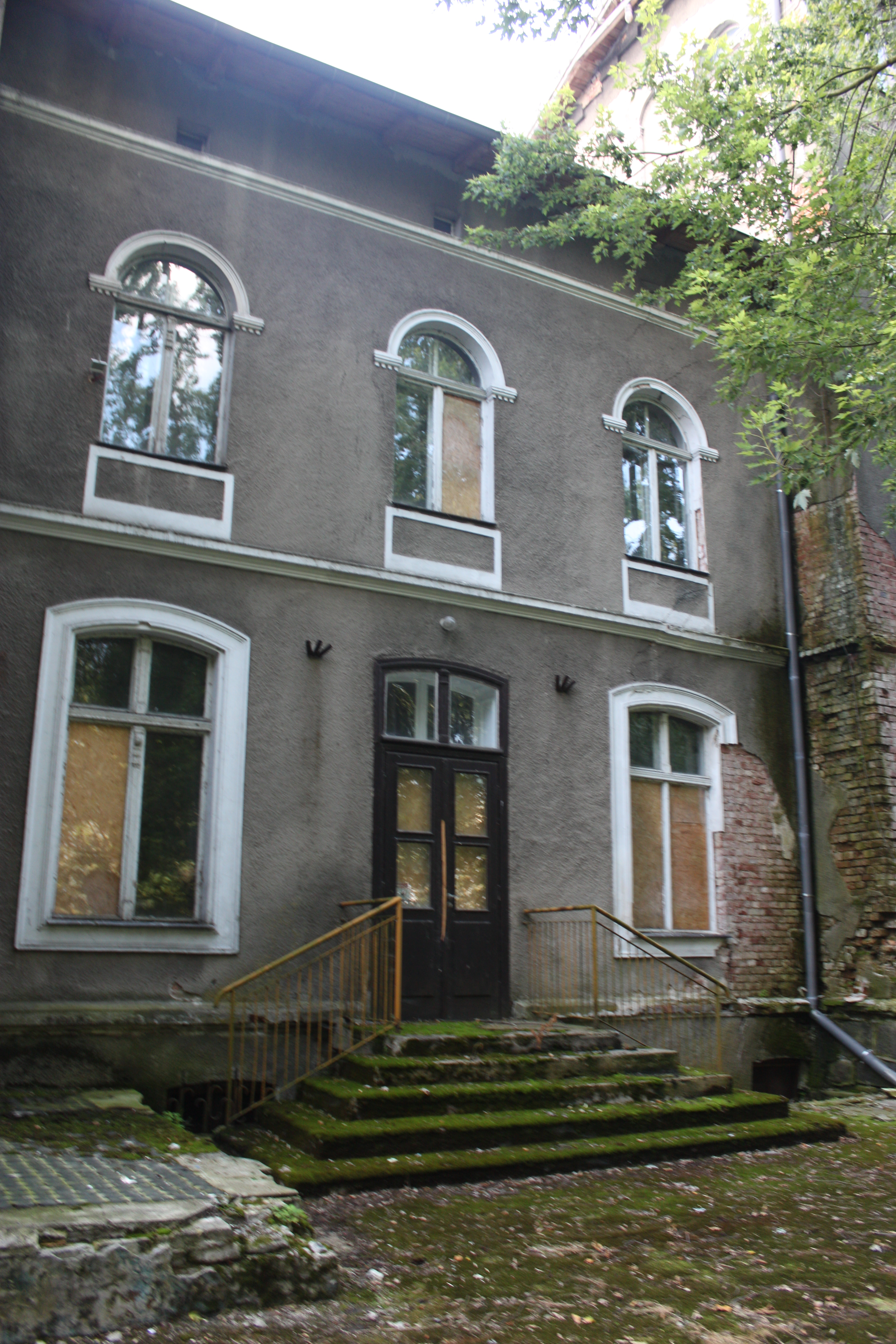 Manor house in Klewki.